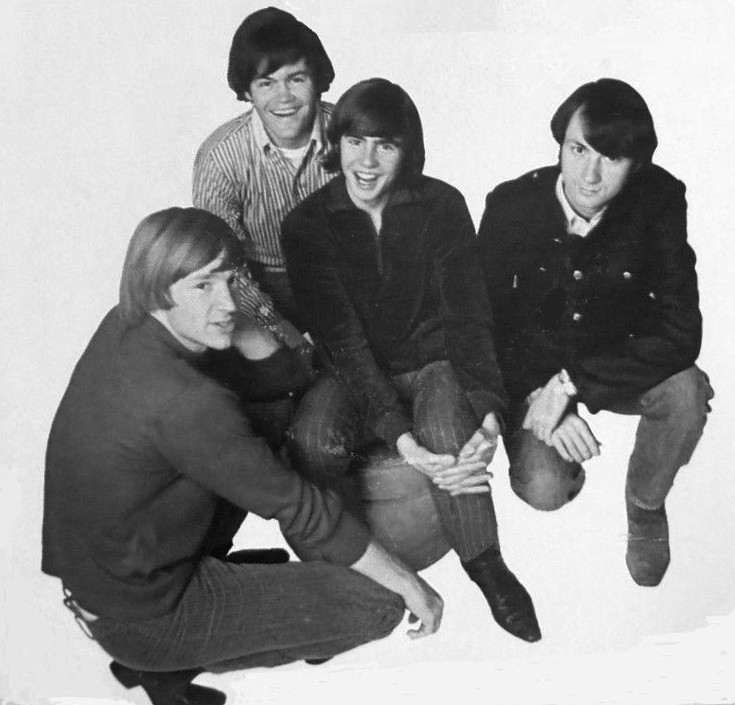 Photo of the Monkees from a full page trade ad for their single.